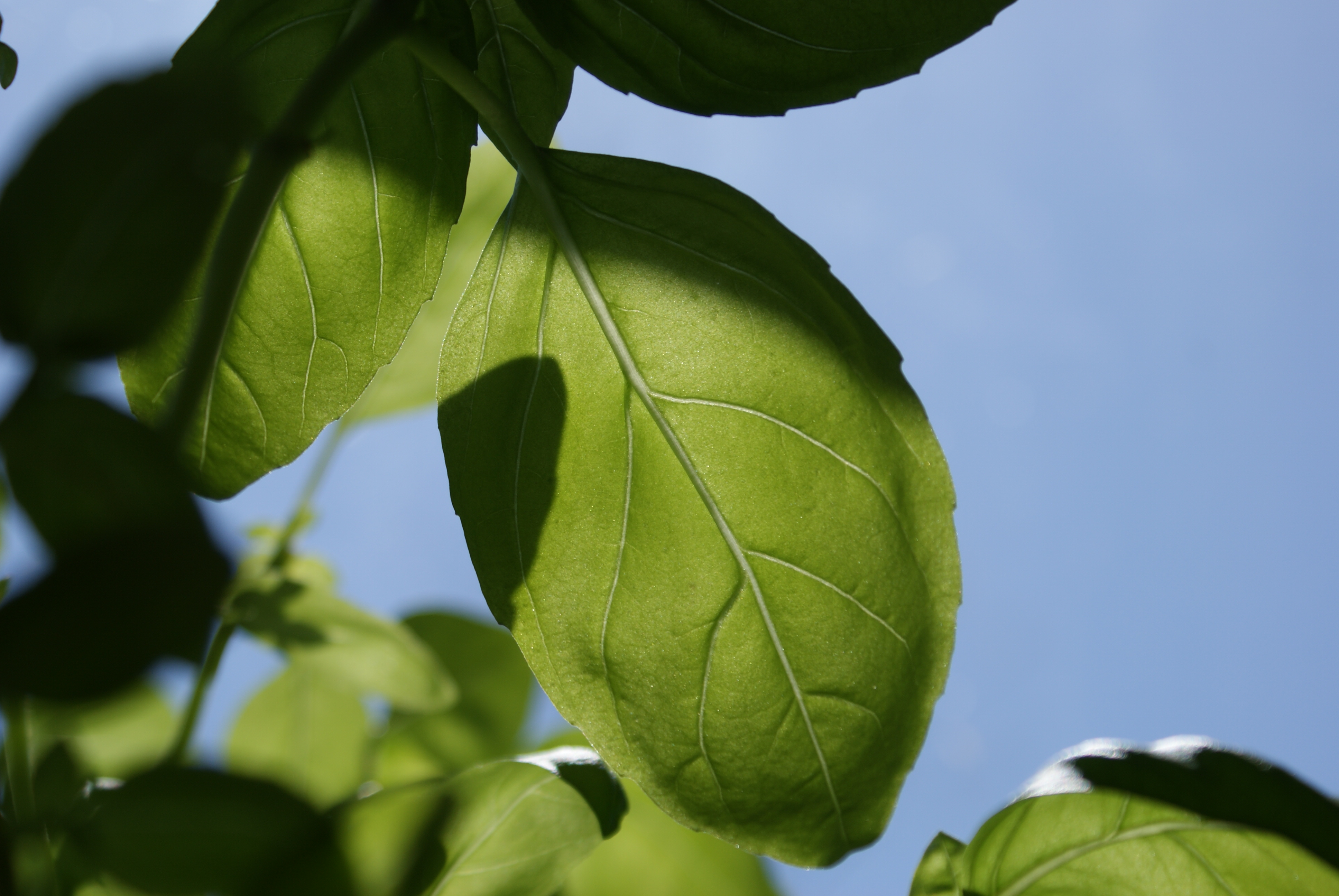 A sweet basil plant growing in Vancouver.